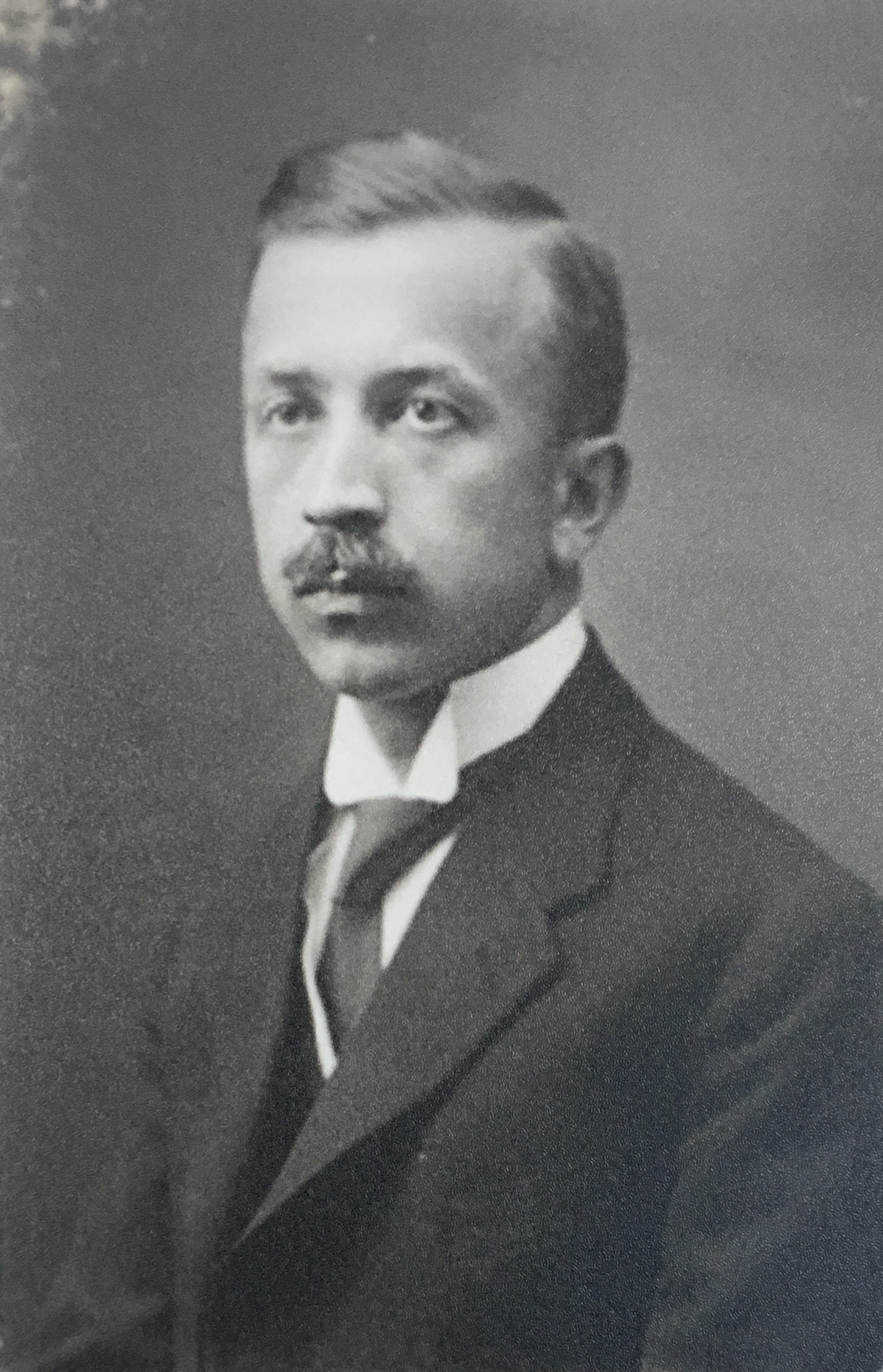 New Bulgarian University Archive - Ivan Sarailiev